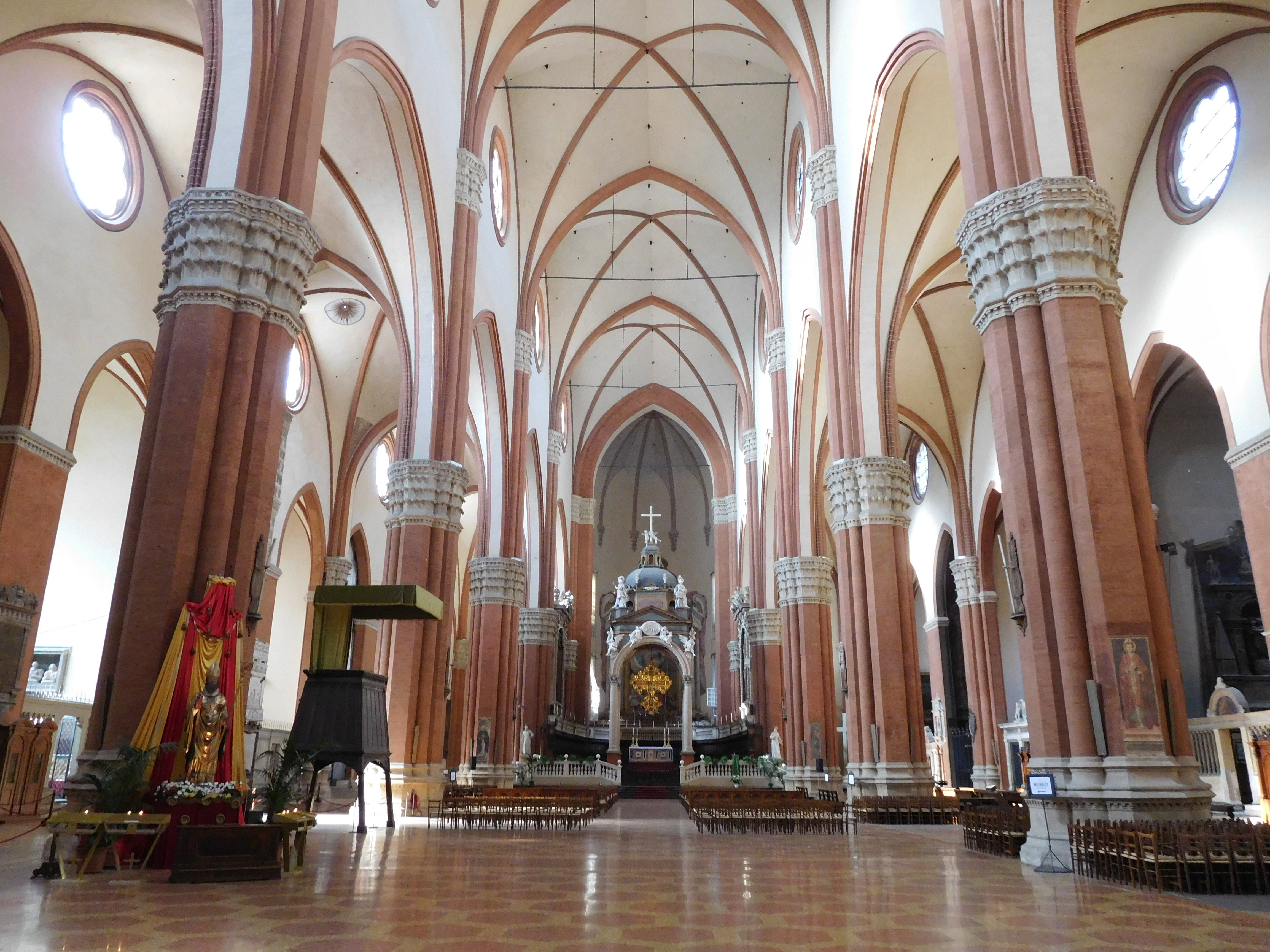 Interior of San Petronio, Bologna